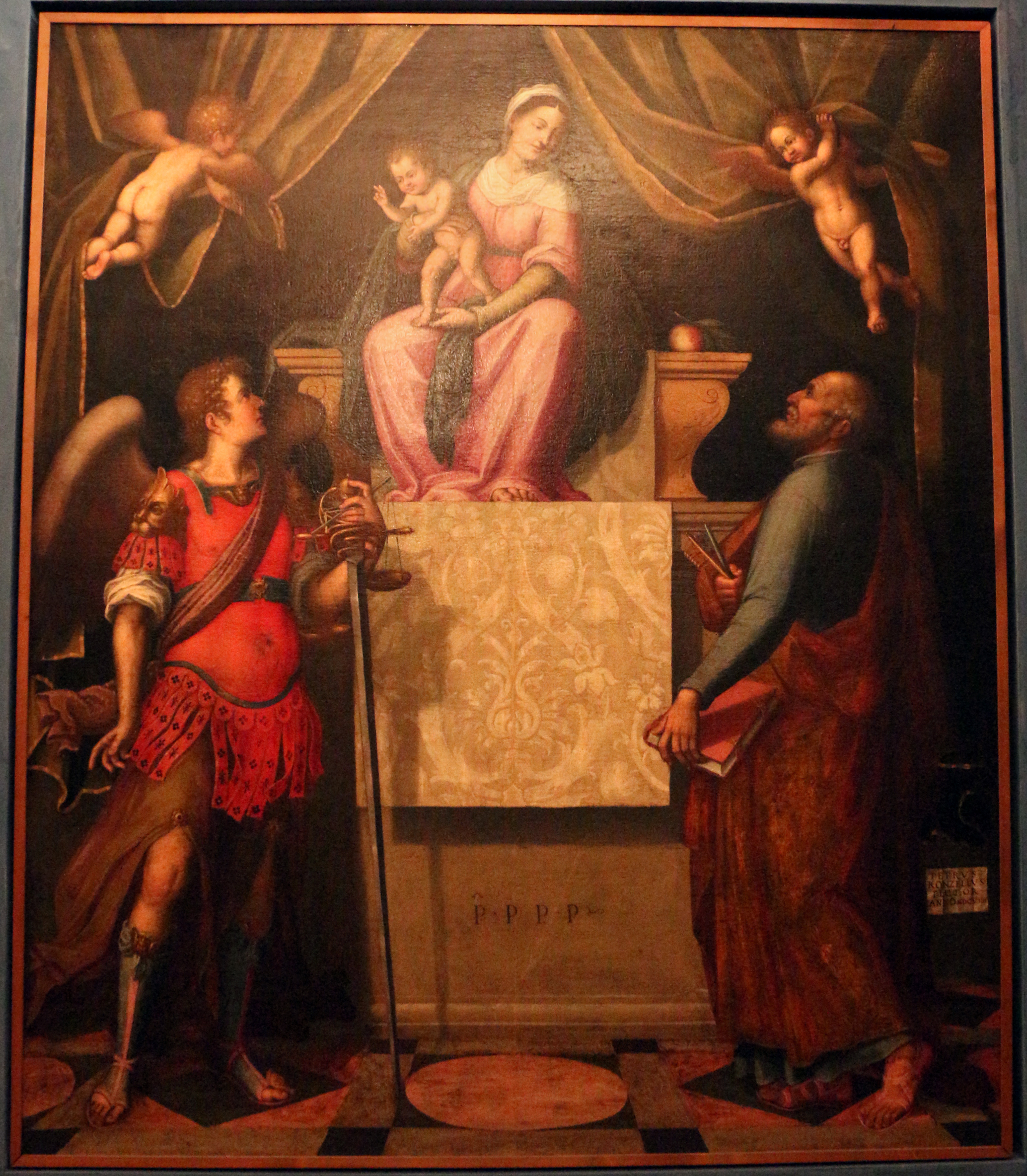 Museo Adriano Bernareggi